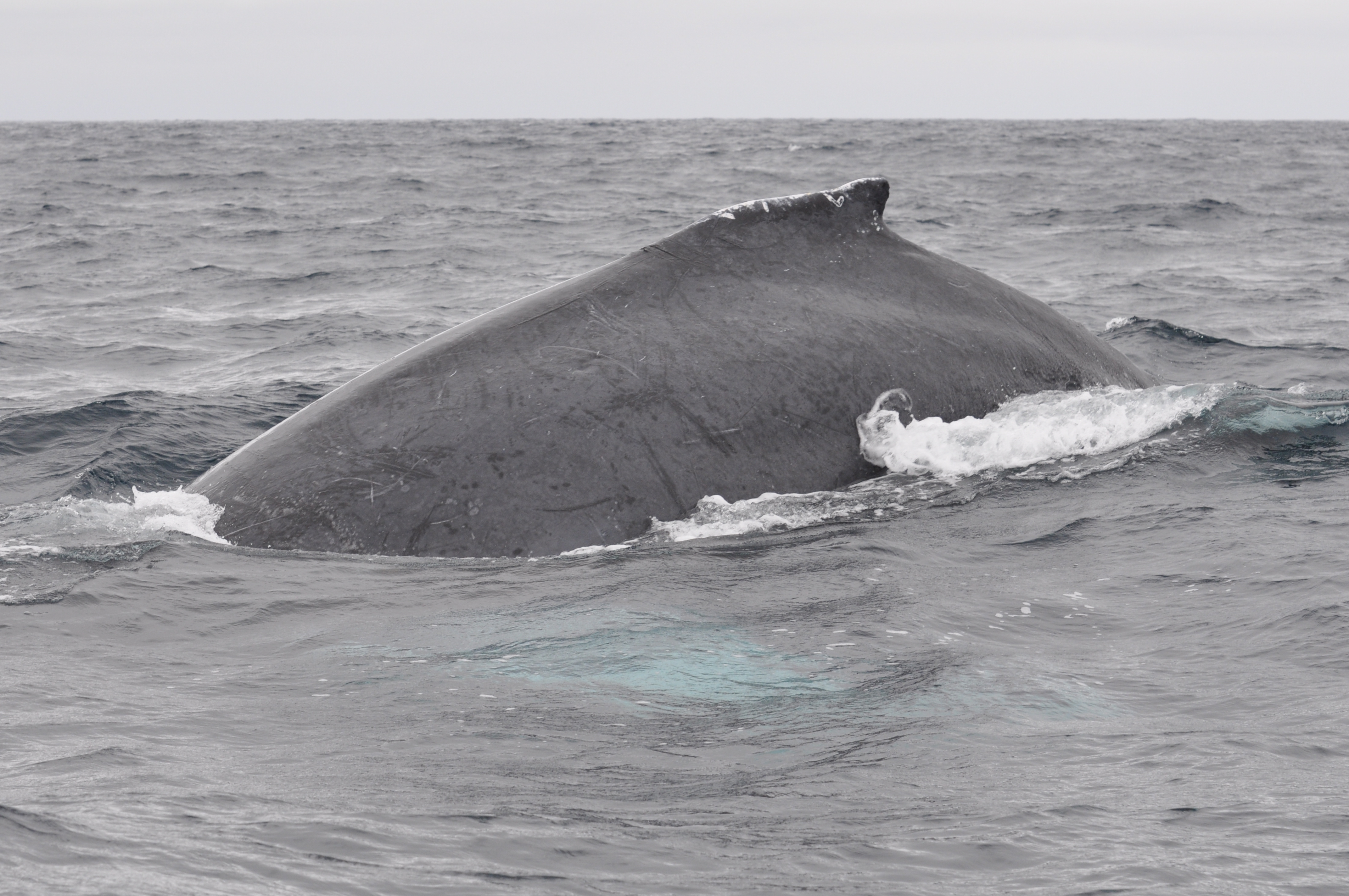 Humpback whale, photographed off the Ecuadorian coast in September 2011.